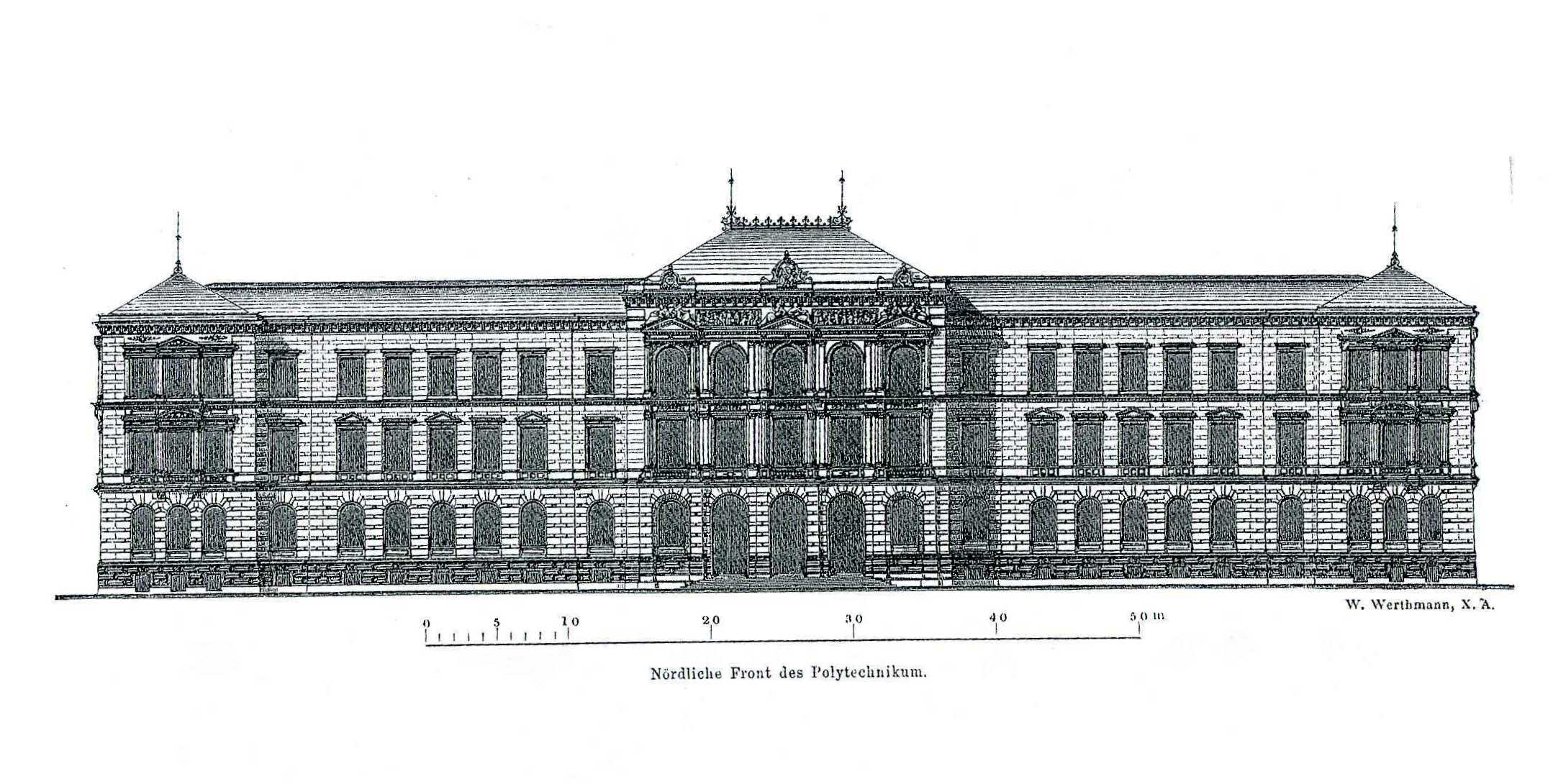 front view of the Polytechnikum Dresden (since 1890: Technische Hochschule Dresden) at Dresden, Bismarckplatz / Strehlener Straße, 1872-1875 by Rudolf Heyn, Neo-Renaissance, destroyed in 1945